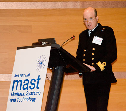 Commodore Bob Mansergh gives a presentation on Piracy at the MAST 2008 conference (